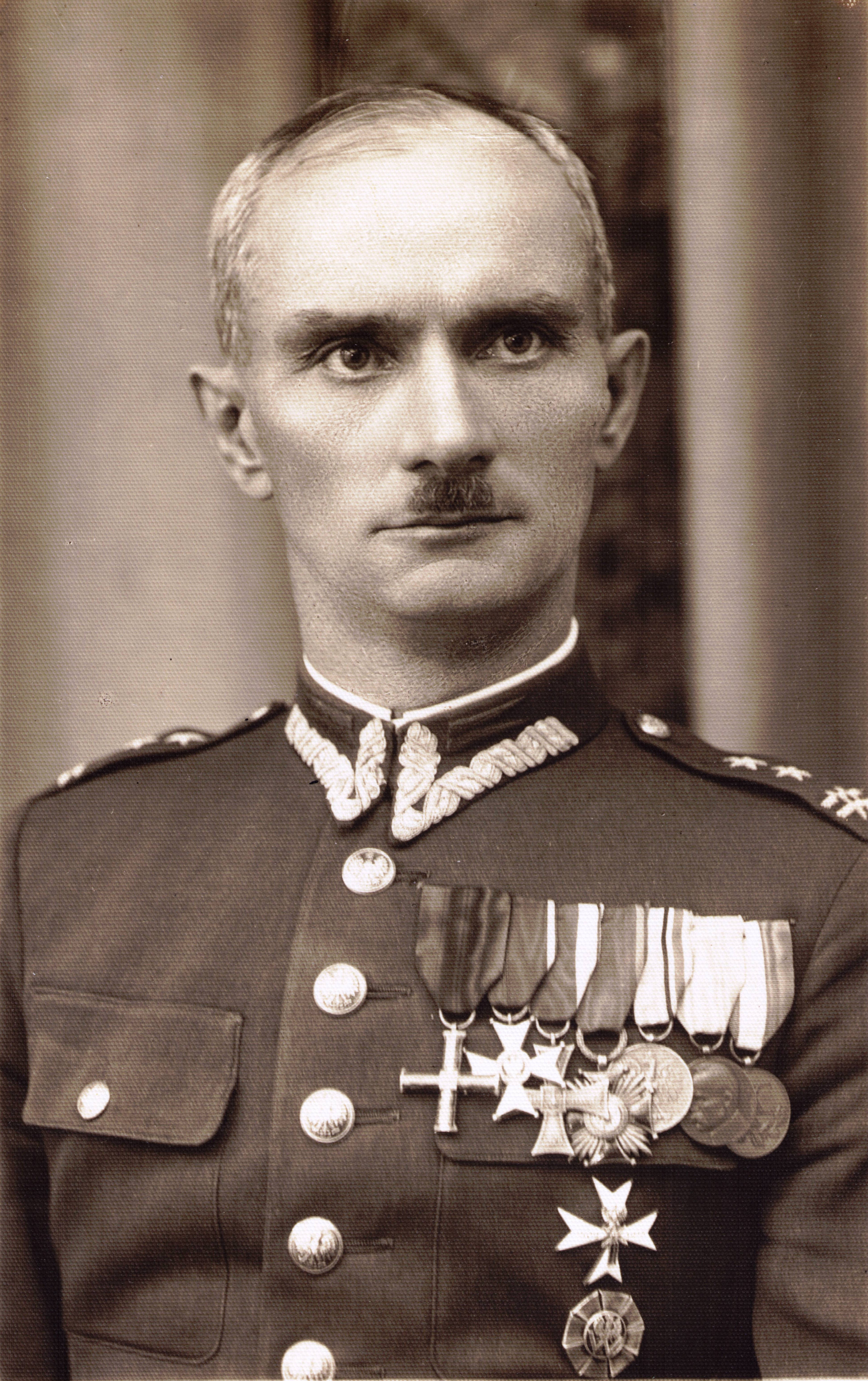 A photograph of Antoni Wereszczyński in Polish Army uniform.